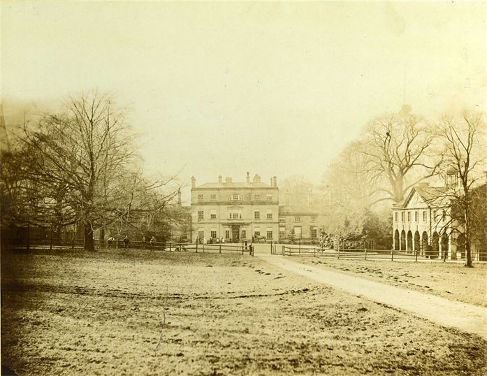 View of Newland Hall estate, built roughly 1740 by the Silvester family and replacing a modest farmhouse. Containing 54 rooms, the Hall was vacated in the latter half of the 19th century. (The building adjacent on the right was the large stable block, which survives today in ruinous condition.) The Hall was demolished in 1917. This photograph showing an occupied Newland House is likely circa 1865-1875. The Newland Estate is situated in the valley of the River Calder between Altofts and Stanley Ferry, and is one of the rare estates in the area which can be traced back through documents for 900 years. Newland with Woodhouse Moor is a civil parish of the City of Wakefield in West Yorkshire. It was formerly the site of a preceptory of the Knights Hospitaller, also known as the Knights of St John. Photograph courtesy of Stanley History Online.